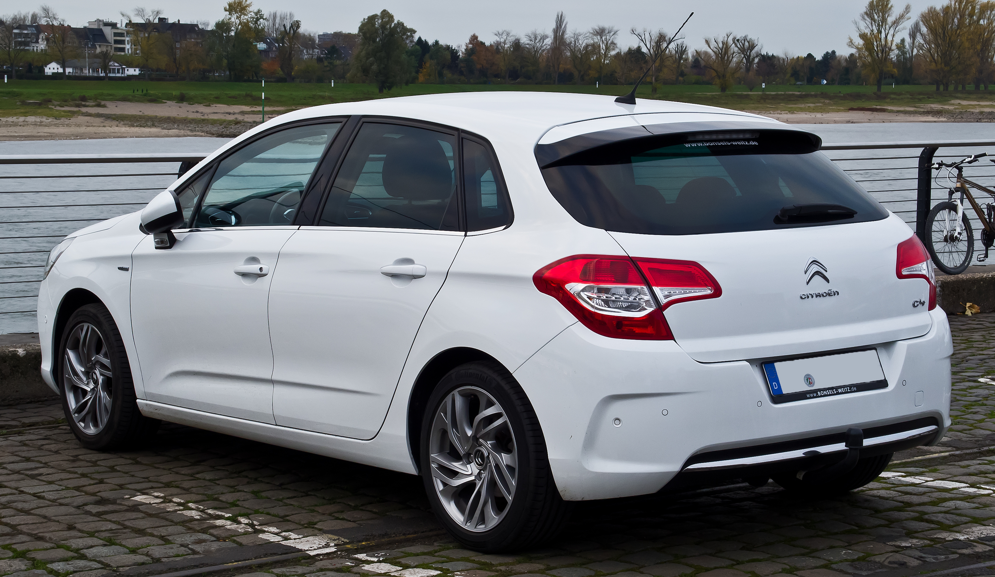 Citroën C4 Exclusive (II)